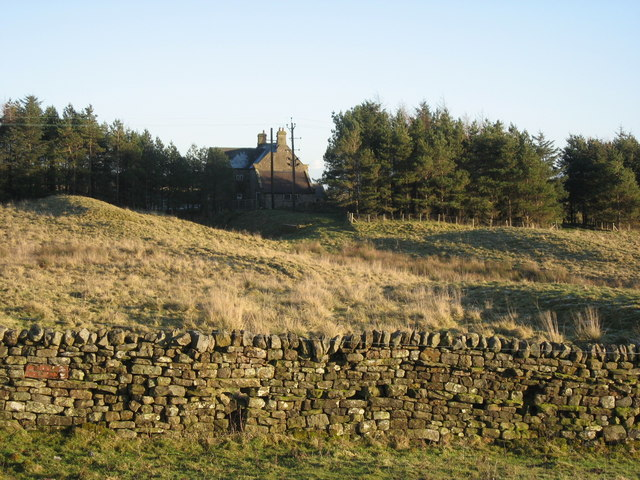 (The site of) Turret 30b on Hadrian's Wall near Carrawbrough Farm